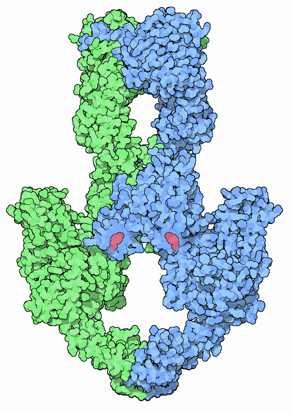 Shaded space-fill drawing of topoisomerase type II enzyme. Composite model from PDB files 1bgw and 1ei1, by David Goodsell in RCSB Molecule of the Month #73.